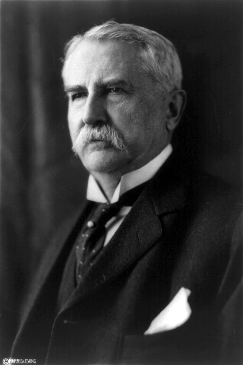 Henry White